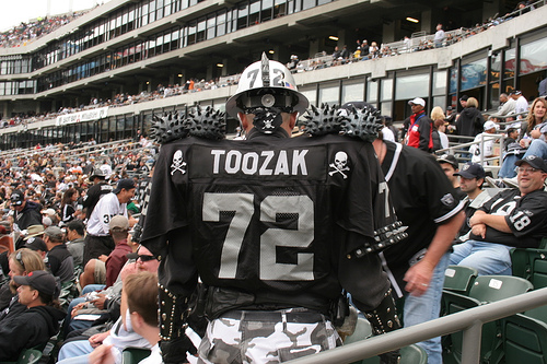 Photo of a confused Person